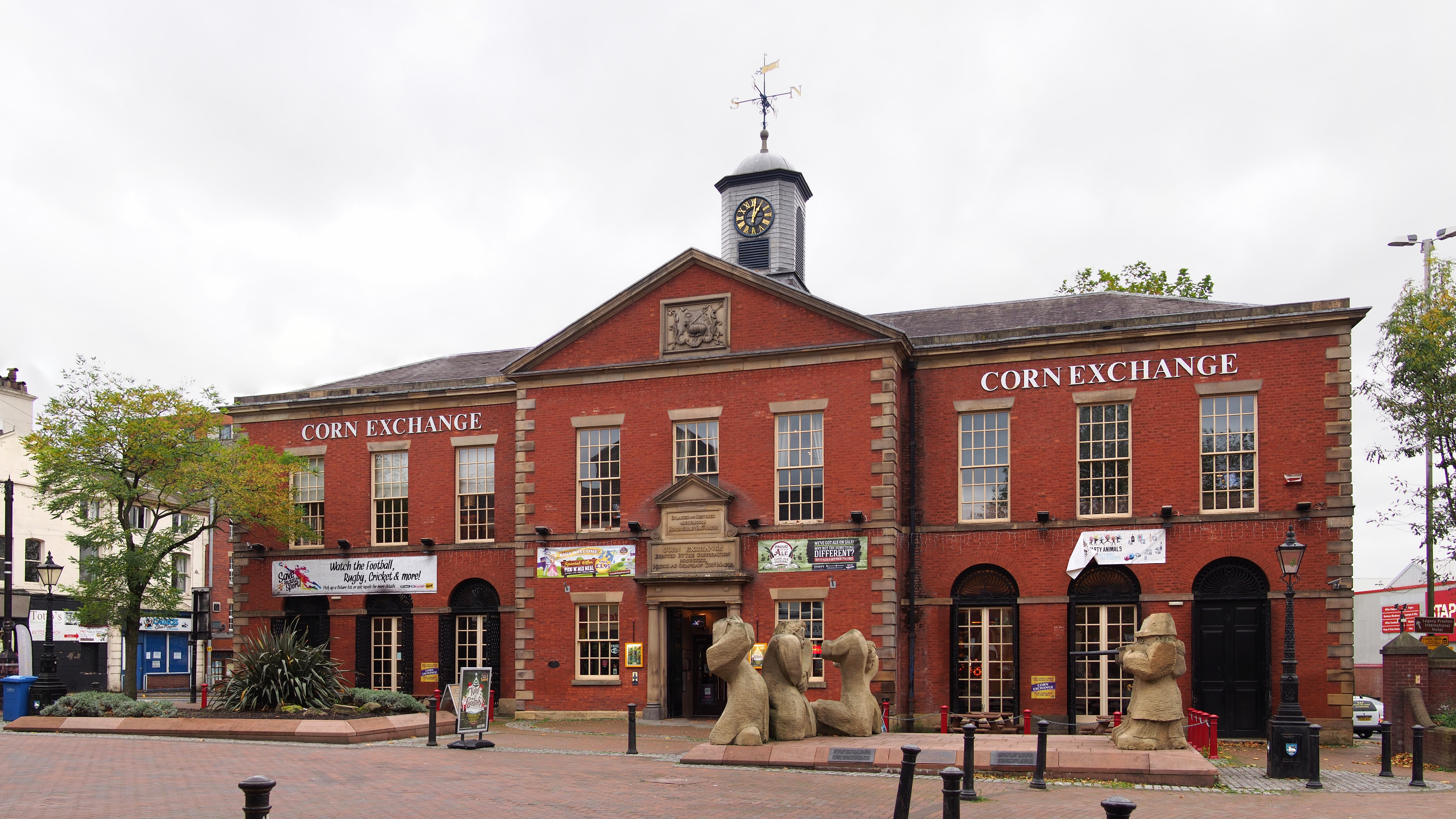 The Corn Exchange, Preston, with the memorial to the massacre of the Preston Strike of 1842 in the right foreground.